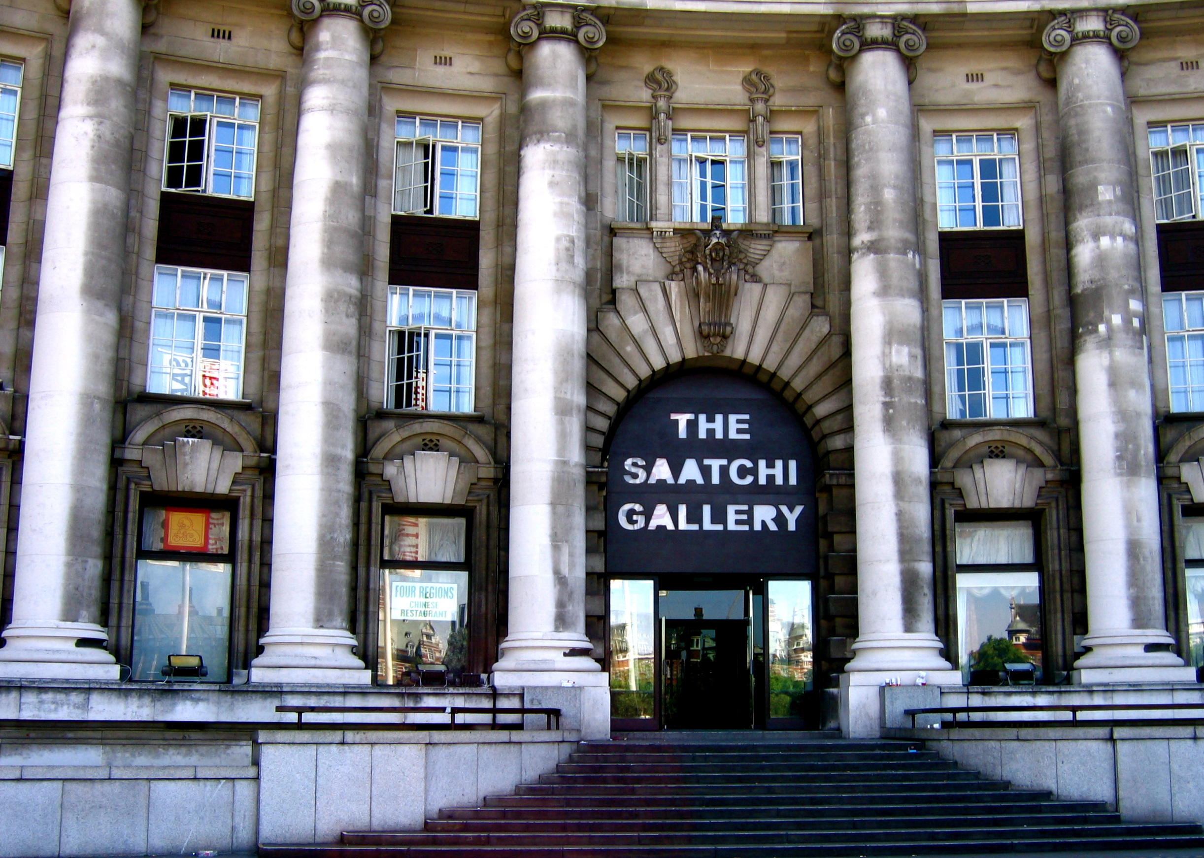 Entrance of the Saatchi gallery at County Hall.